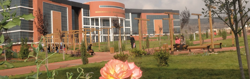 A picture from Kilis 7 Aralık University Campus